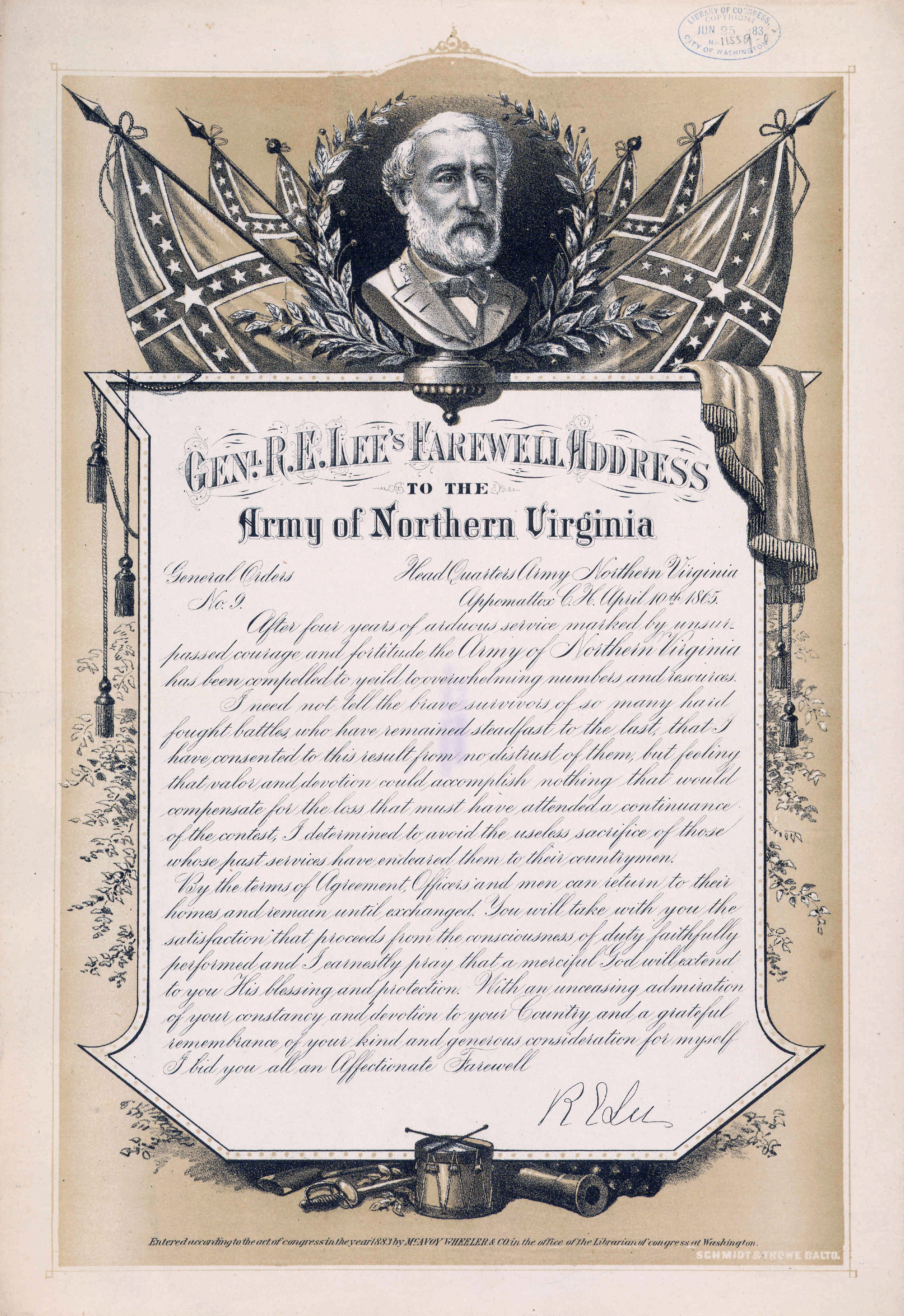 Poster with reprint of General Robert E. Lee's Farewell Address to the Army of Northern Virginia at Appomattox Court House, Virginia, April 10, 1865. The Library of Congress, Washington, D. C.